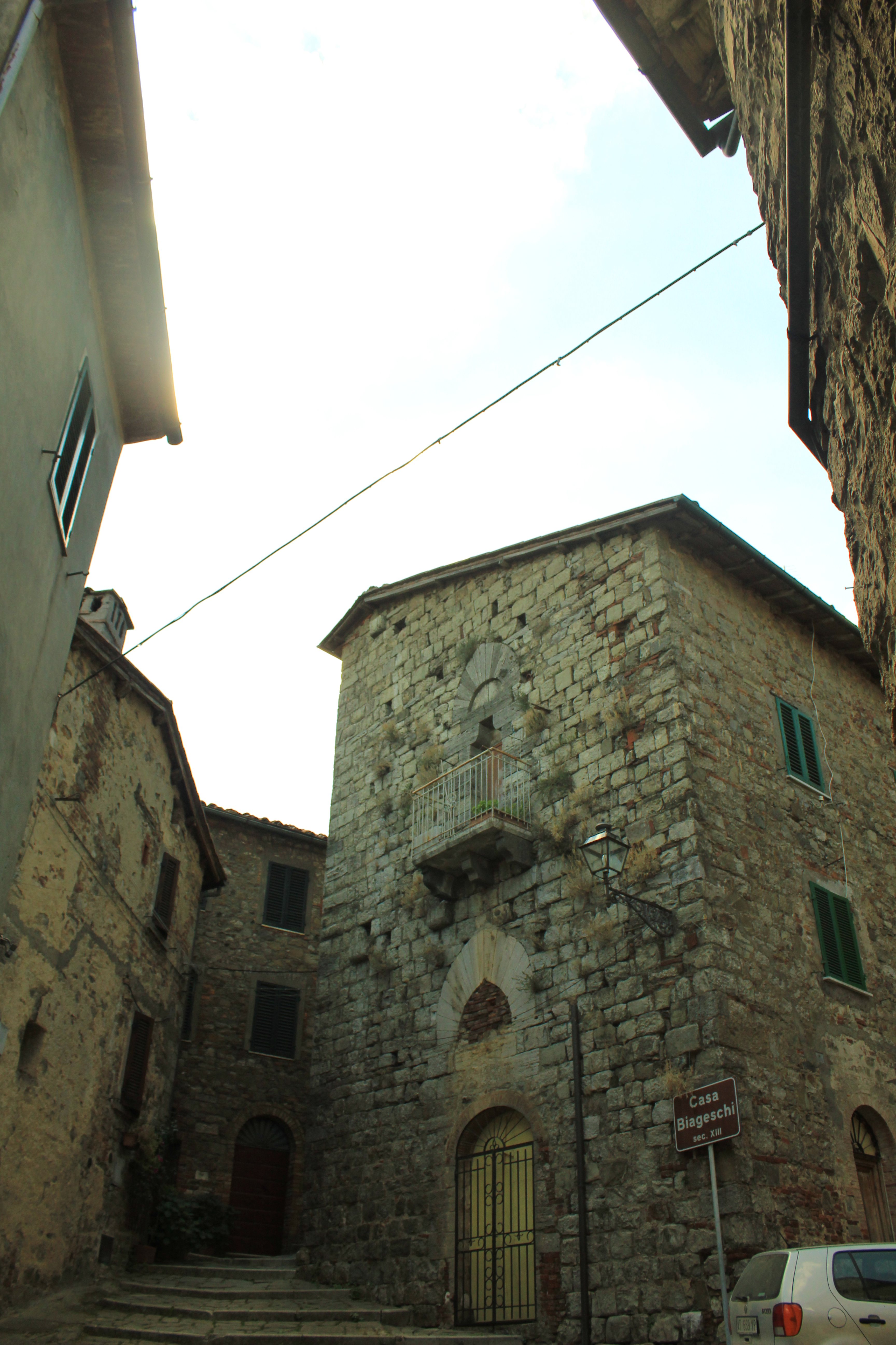 Biageschi Tower in Montieri, Grosseto.